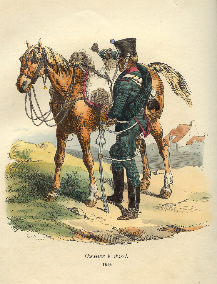 Chasseur-à-Cheval from the Grande Armée. From book of P.-M. Laurent de L`Ardeche «Histoire de Napoleon», 1843